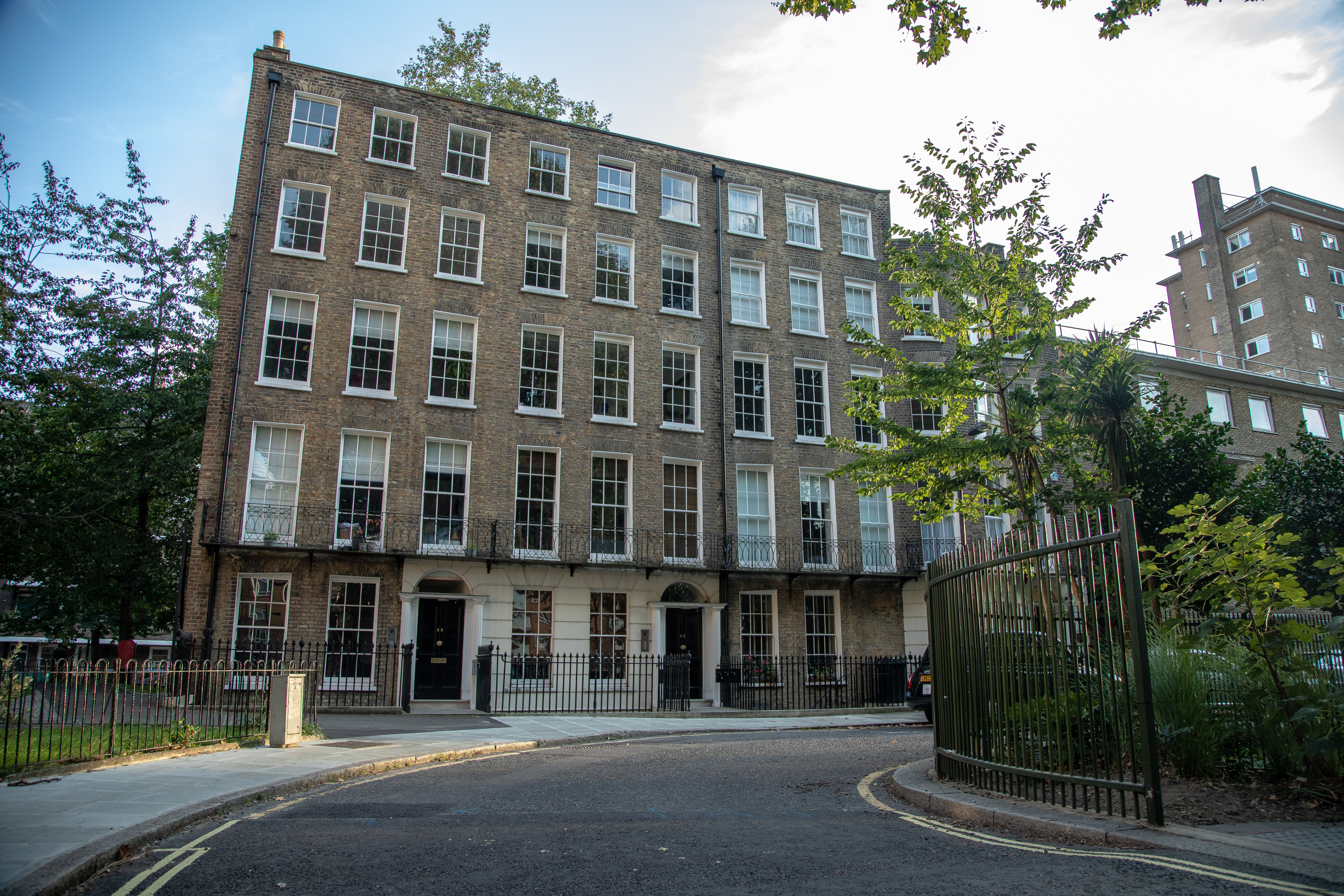 The Blackfriars Settlement And Attached Railings Wikidata has entry Q26665482 with data related to this item.